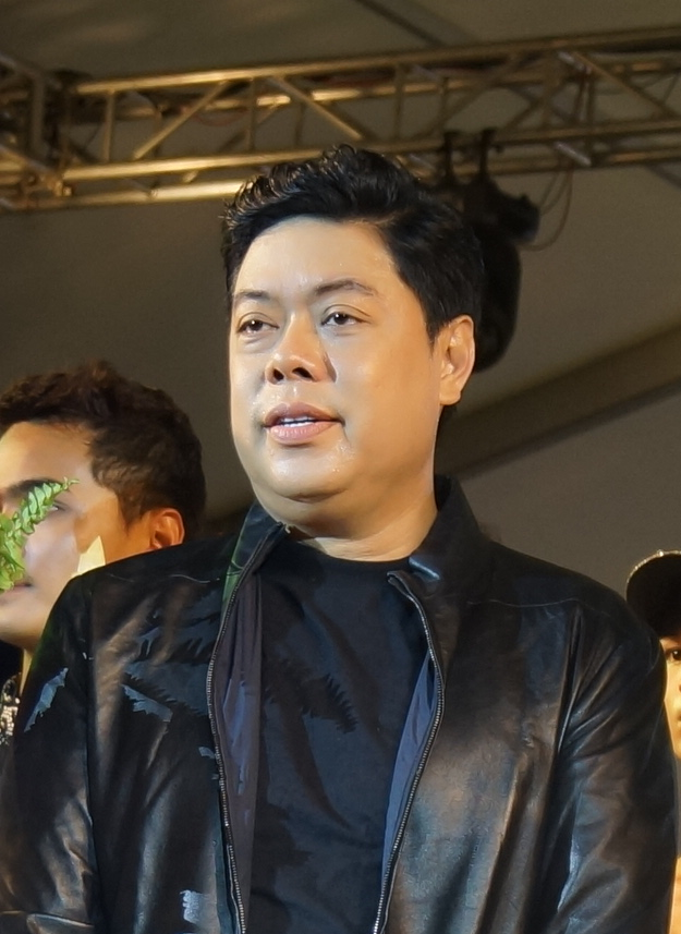 Mr John ending off Myanmar International Fashion Week 2016 with Myanmar superstar Aung Ye Lin and Design Dvis from Thailand .